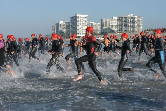 Start at 2006 Superfrog Triathlon in Coronado, California